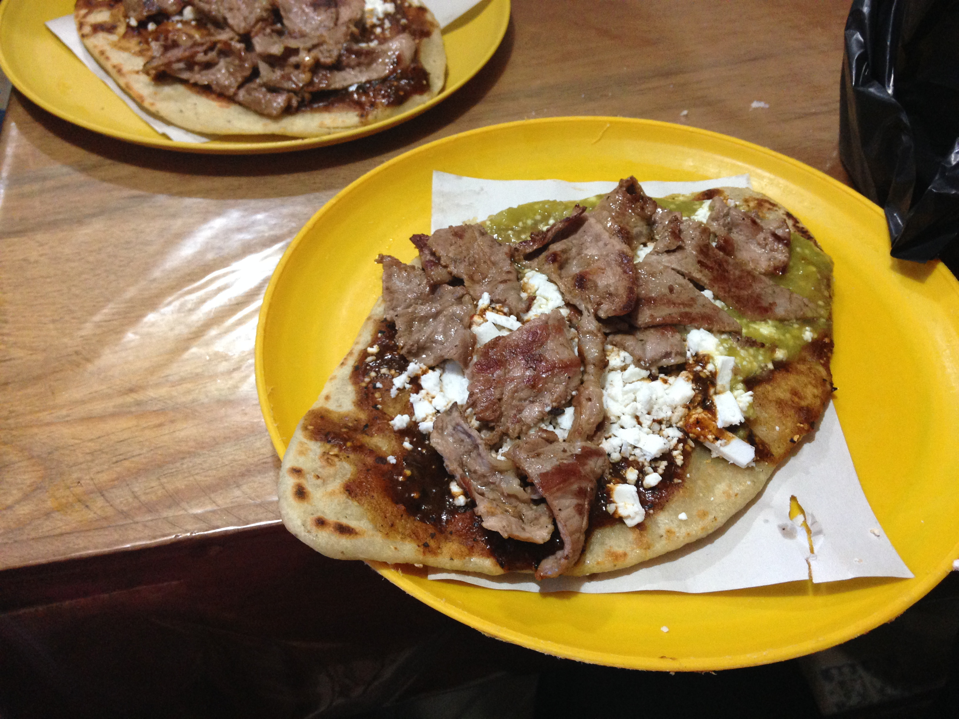 Tlacoyo with meat, beans, cheese and seasoned with green and pasilla chili sauces. Historical Downtown of Mexico City